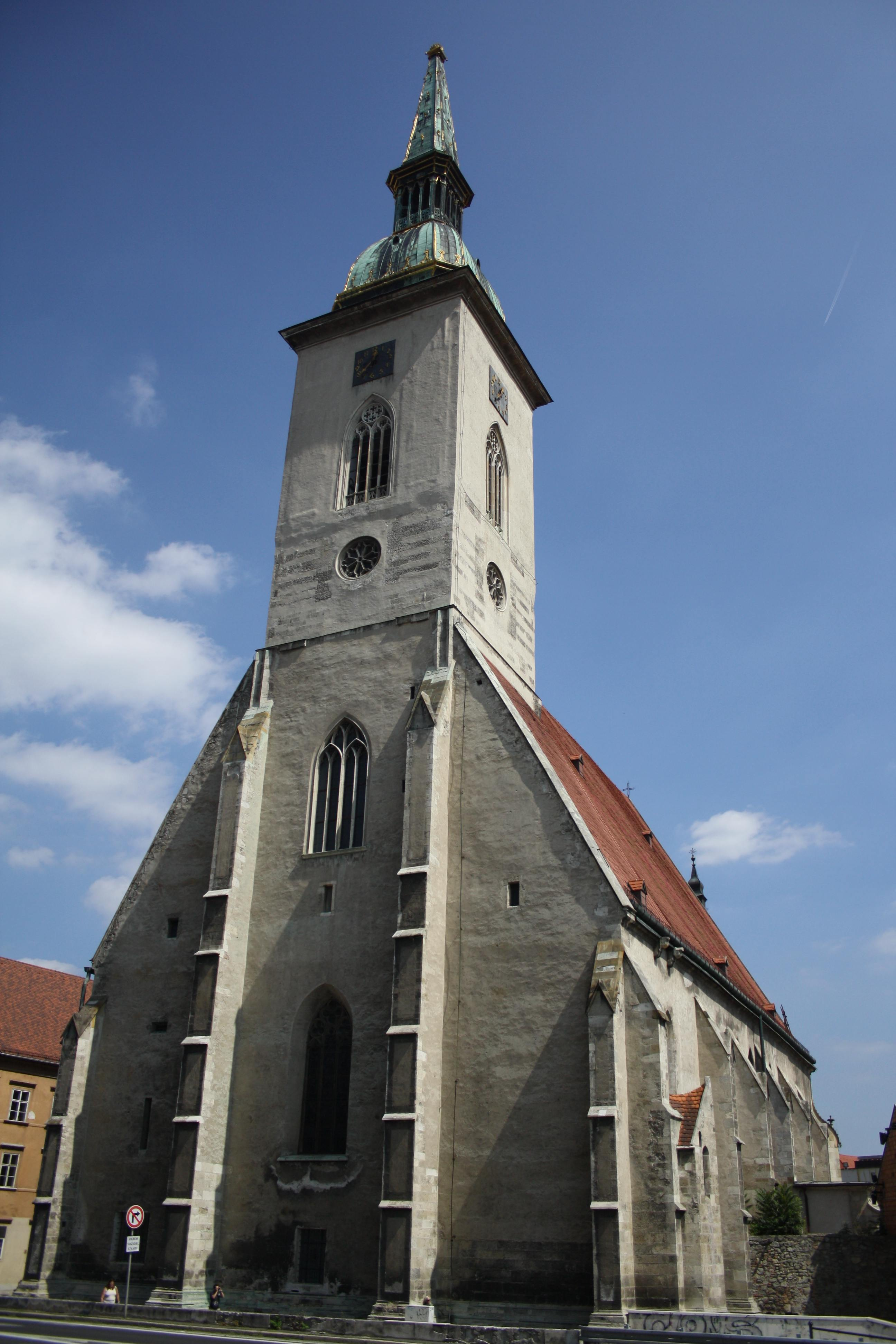 Cathedral of St. Martin in Bratislava, overview.